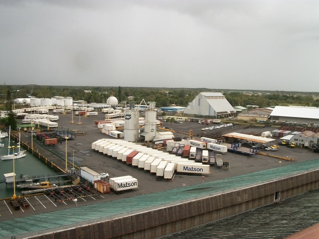 Shipping dock in Hawaii